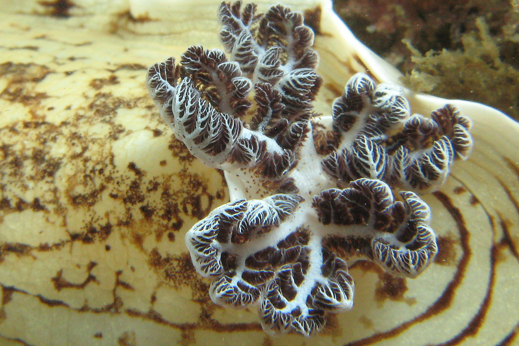 Gills of the seaslug Aphelodoris varia